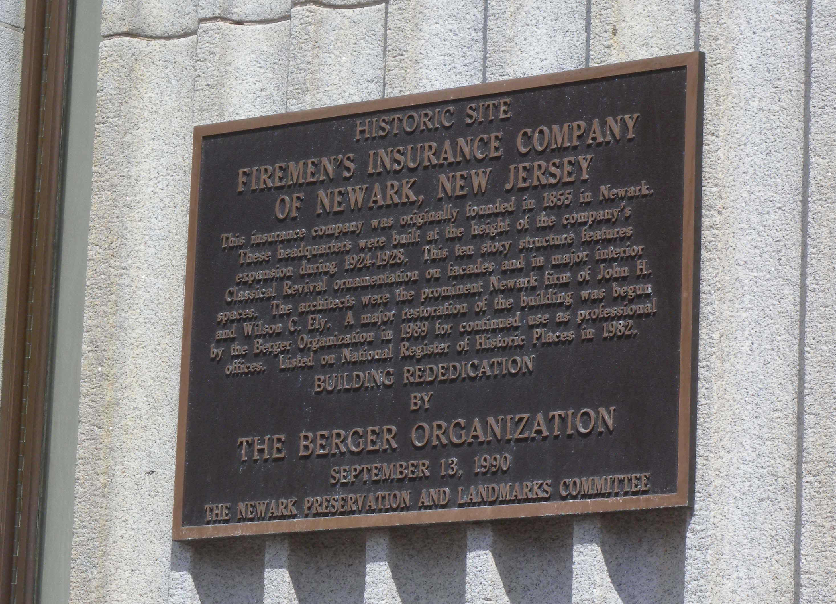 Closeup of plaque on Firemen's Insurance Company building. See File:Firemens Insurance Newark jeh.jpg.